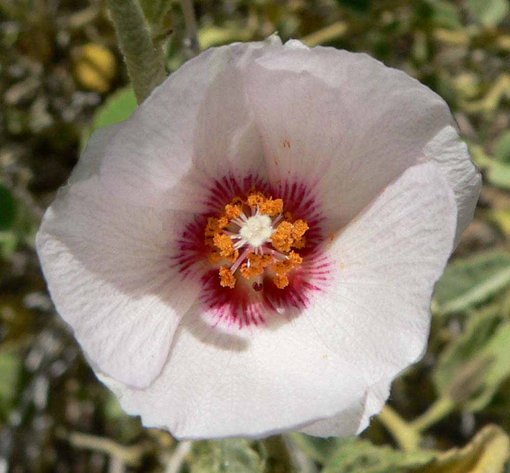 Photo of Hibiscus denudatus (pale face) in Palm Canyon, California